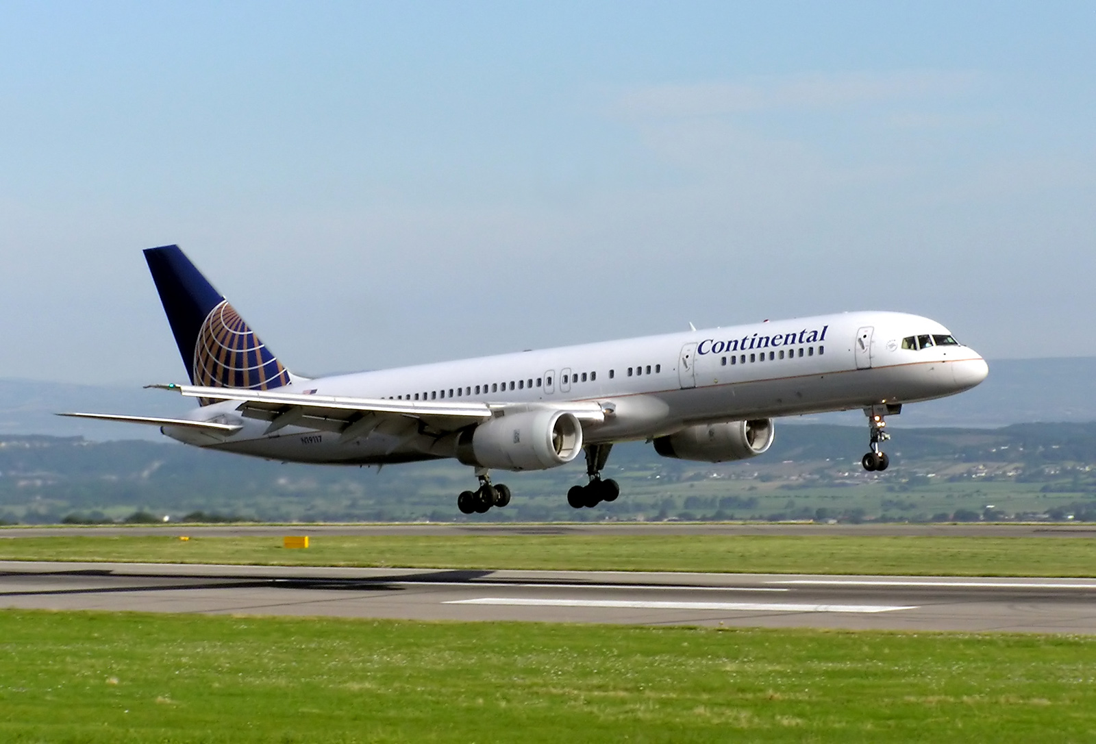 Continental Airlines Boeing 757-200 (US registration N19117, built 1996) lands from Newark at Bristol International Airport, Bristol, England. Photographed by Adrian Pingstone in August 2005 and released to the public domain.